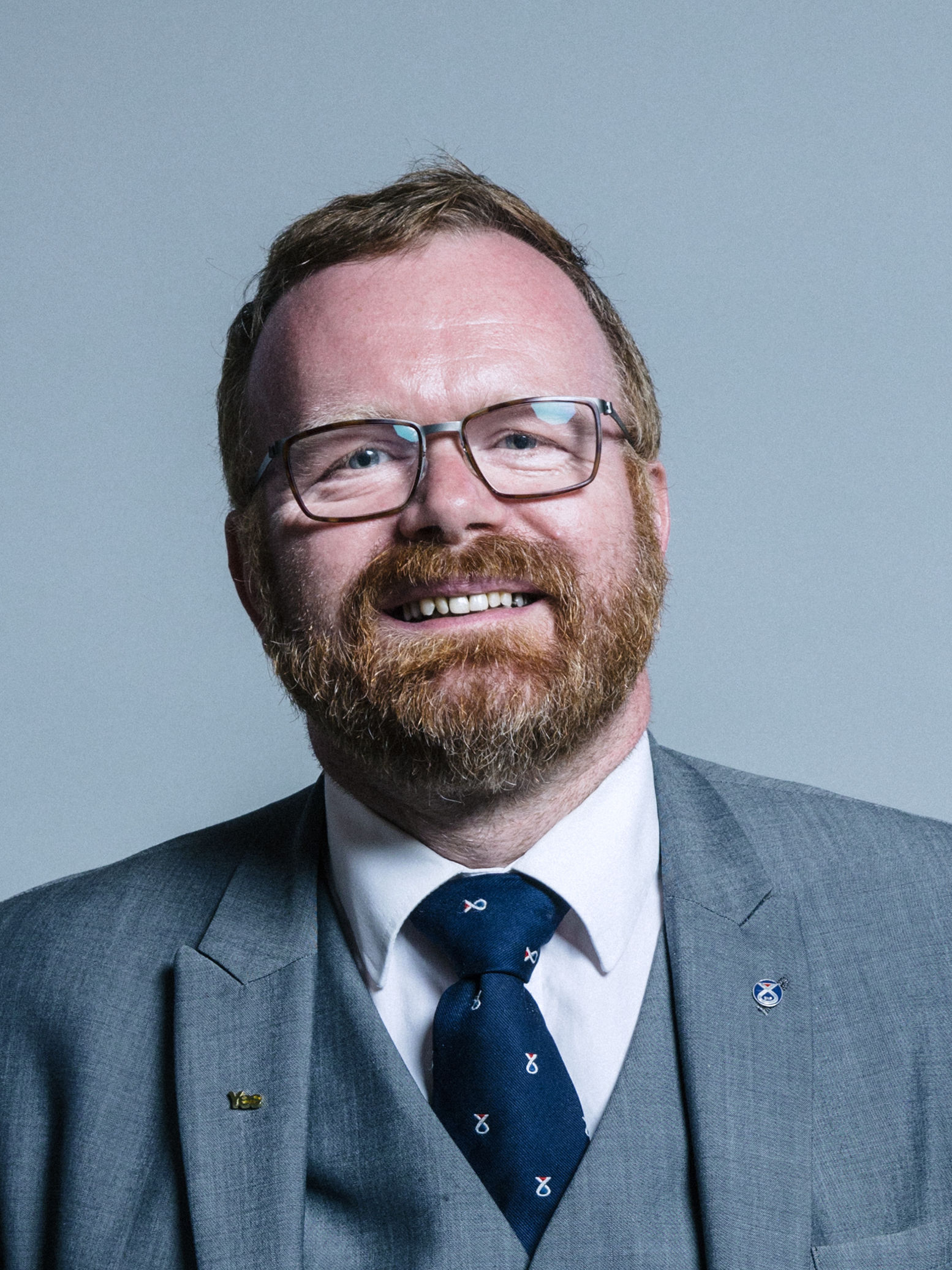 Official Parliamentary photograph of Andrea Leadsom MP. For confirmation of licence